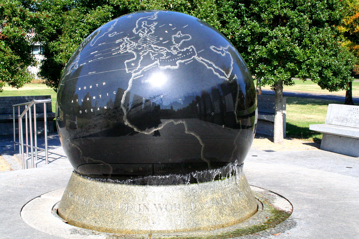 World War II Memorial, Bicentennial Mall